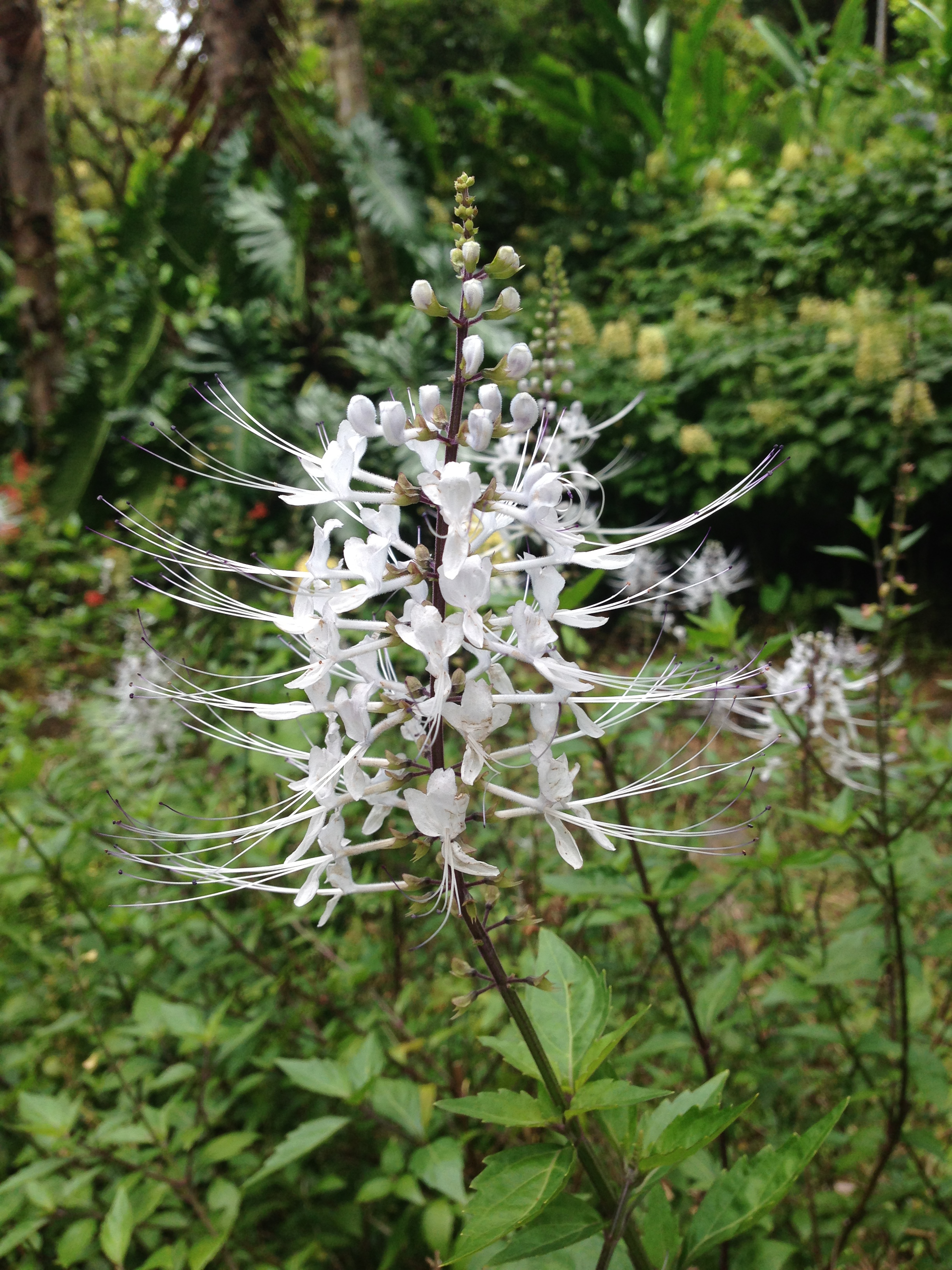 Beautiful flower at the gardens